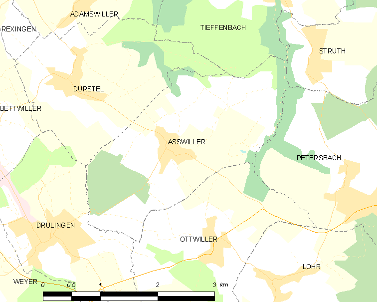 Map of French municipality